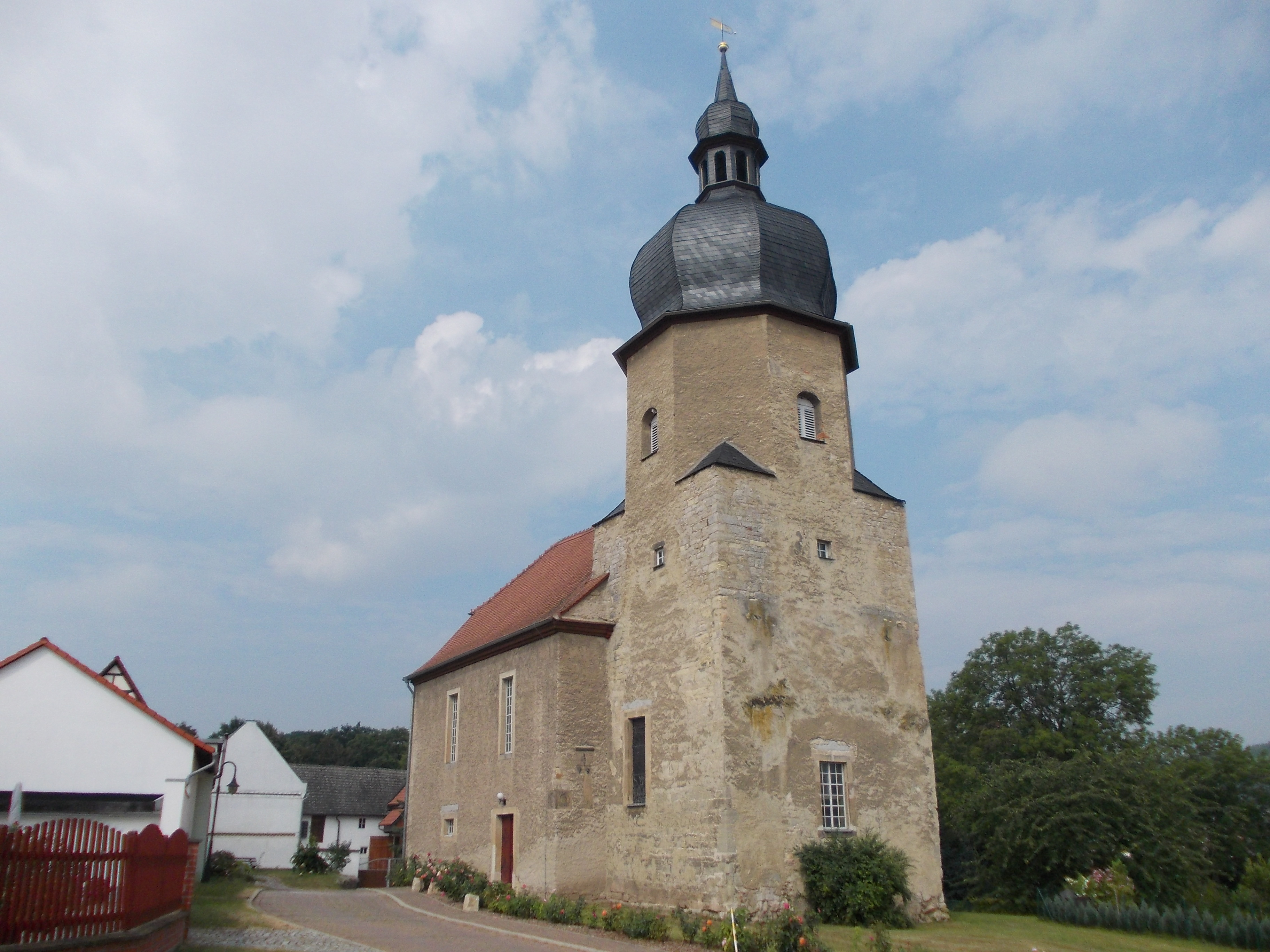 St. Elisabeth Church of Roses in Grossheringen (district of Weimarer Land, Thuringia)